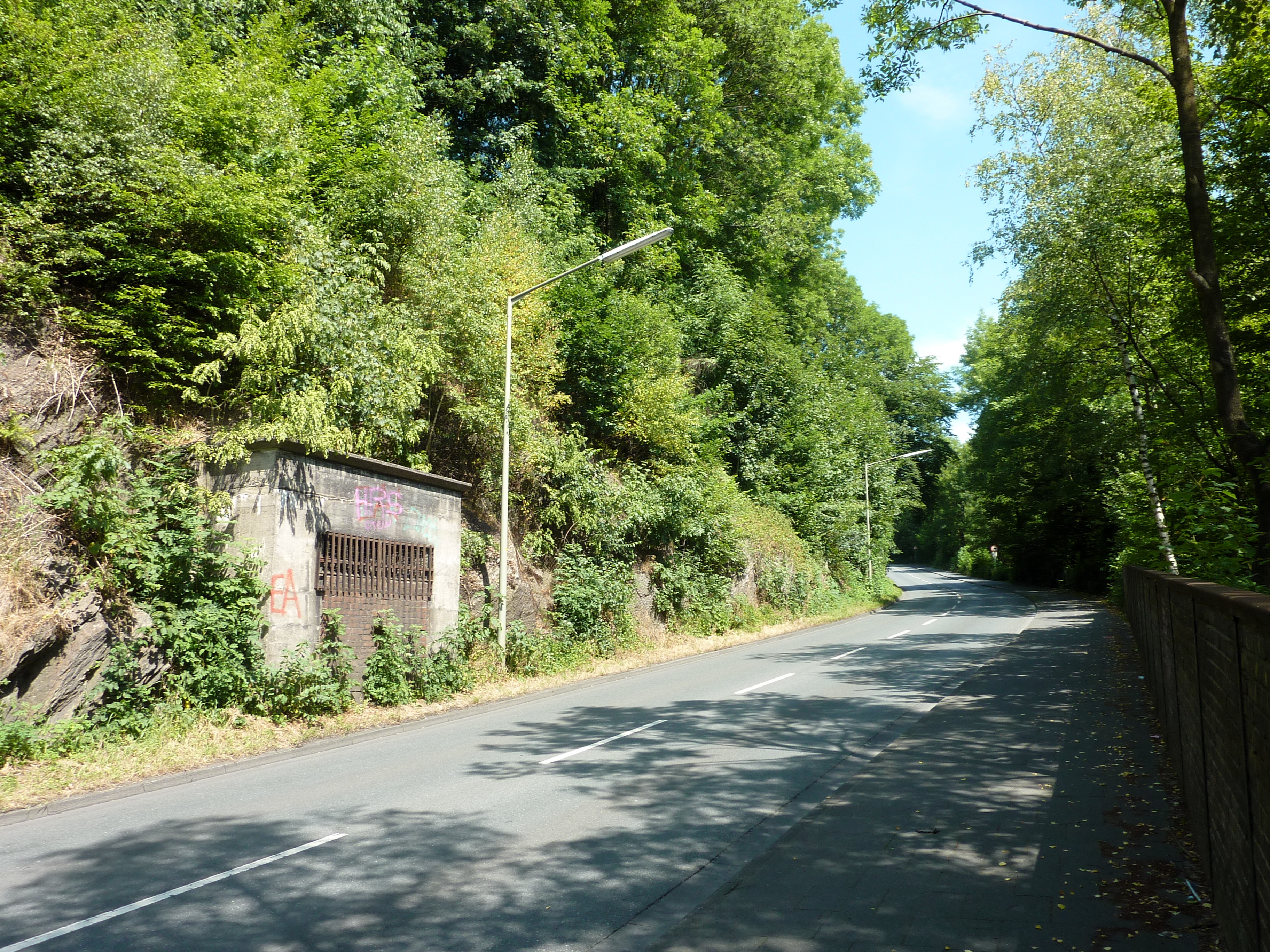 City of Siegen (Westphalia, Germany): Blocked entrance of the mining adit Hainer Stollen, located in the east side of the Siegberg mountain. During late WWII, this centuries-old iron ore mine was specially prepared in a secret operation of the national socialist regime. In 1944, it was used to host important cultural artifacts and pieces of art of Westphalian churches and museums as a protection from air raid damage. Among these items were the Aachen Cathedral Treasury (Aachener Domschatz) and the casket with the remains of Charlemagne (Karlsschrein). In April 1945, the treasury in the adit was detected by U.S. troops who returned the items to their original places in May 1945.